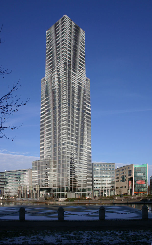 Kölnturm, Cologne, Germany